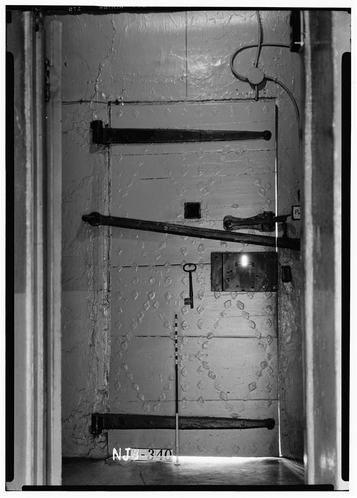 Title: Burlington County Prison, 128 High Street, Mount Holly, Burlington, NJ * Creator(s): Historic American Buildings Survey, creator * Related Names: Mills, Robert * Medium: Measured Drawing(s): 24(18 x 24 in.) Photo(s): 7 (5 x 7 in.) Data Page(s): 12 plus cover page * Reproduction Number: [See Call Number] * Call Number: HABS NJ,3-MOUHO,8- * Repository: Library of Congress, Prints and Photographs Division, Washington, D.C. 20540 USA * Notes: o Survey number HABS NJ-340 o Unprocessed field note material exists for this structure (FN-191). o Building/structure dates: 1810 initial construction o National Register of Historic Places NRIS Number: 86003558 * Subjects: o prisons o prison reform o NEW JERSEY--Burlington--Mount Holly * Collections: o Historic American Buildings Survey/Historic American Engineering Record/Historic American Landscapes Survey * Part of: Historic American Buildings Survey (Library of Congress) * Contents: Photograph caption(s) 1. Historic American Buildings Survey Nathaniel R. Ewan, Photographer March 15, 1936 EXTERIOR - SOUTHEAST ELEVATION 2. Historic American Buildings Survey Nathaniel R. Ewan, Photographer March 3, 1937 EXTERIOR - WEST ELEVATION 3. Historic American Buildings Survey Nathaniel R. Ewan, Photographer March 3, 1937 EXTERIOR - MAIN ENTRANCE 4. Historic American Buildings Survey Nathaniel R. Ewan, Photographer March 3, 1937 EXTERIOR - DETAIL STEPS AND DOOR - WEST ELEVATION 5. Historic American Buildings Survey Nathaniel R. Ewan, Photographer March 3, 1937 INTERIOR - MAIN DOOR WITH ORIGINAL HARDWARE 6. Historic American Buildings Survey Nathaniel R. Ewan, Photographer March 3, 1937 INTERIOR - MURDERER'S CELL - SECOND FLOOR 7. Historic American Buildings Survey, Taken from drawing sheet * Bookmark This Record